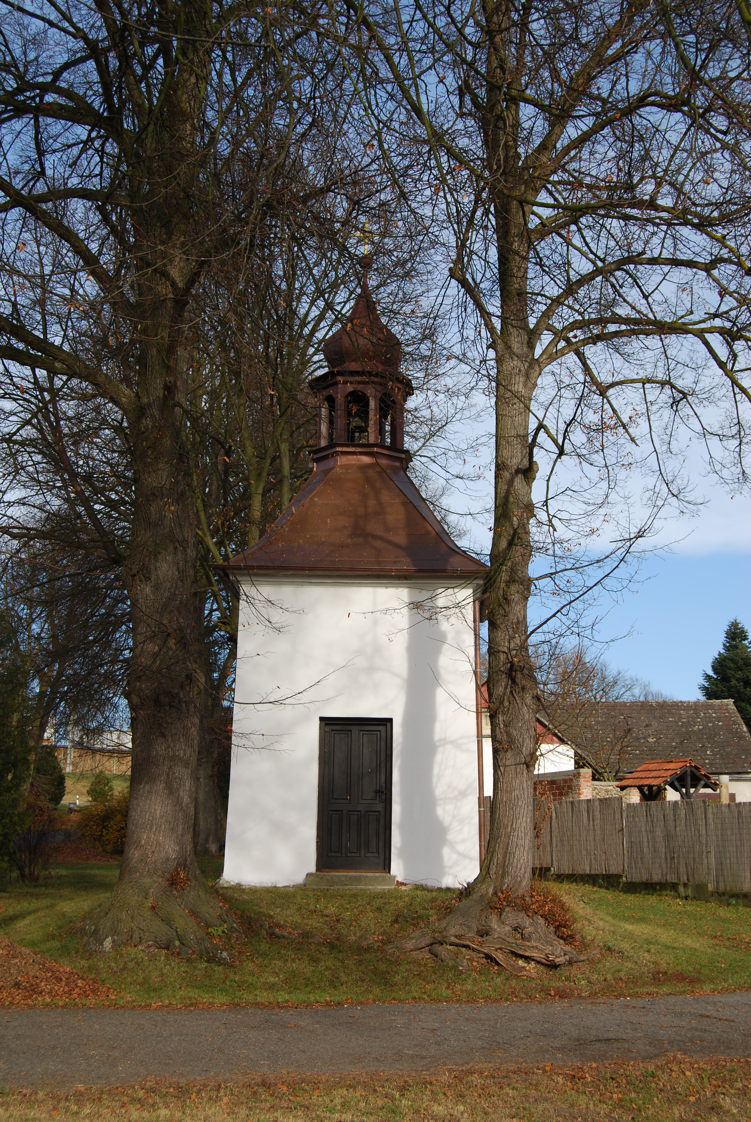 Záhoří village in Tábor District, Czech Republic. Chapel.